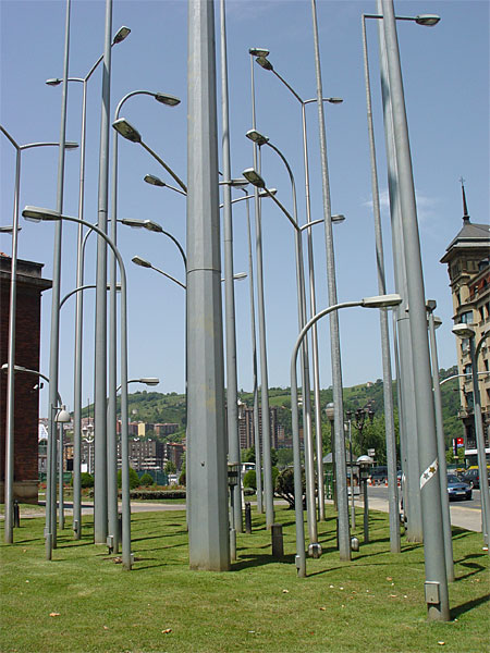 "Streetlamp Grove", public art in Bilbao, Spain. BY Juan Luis Moraza }